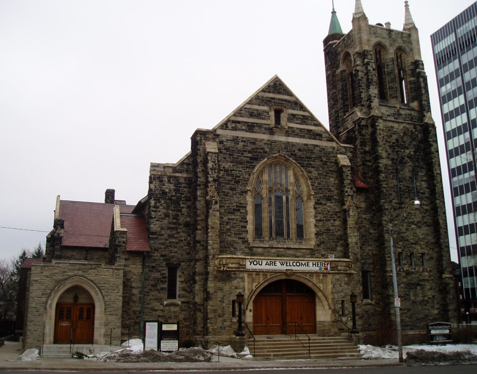 Deer Park United Church